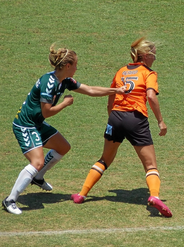 Georgia Yeoman-Dale of Canberra United (L) and Hannah Beard of Brisbane Roar (R)